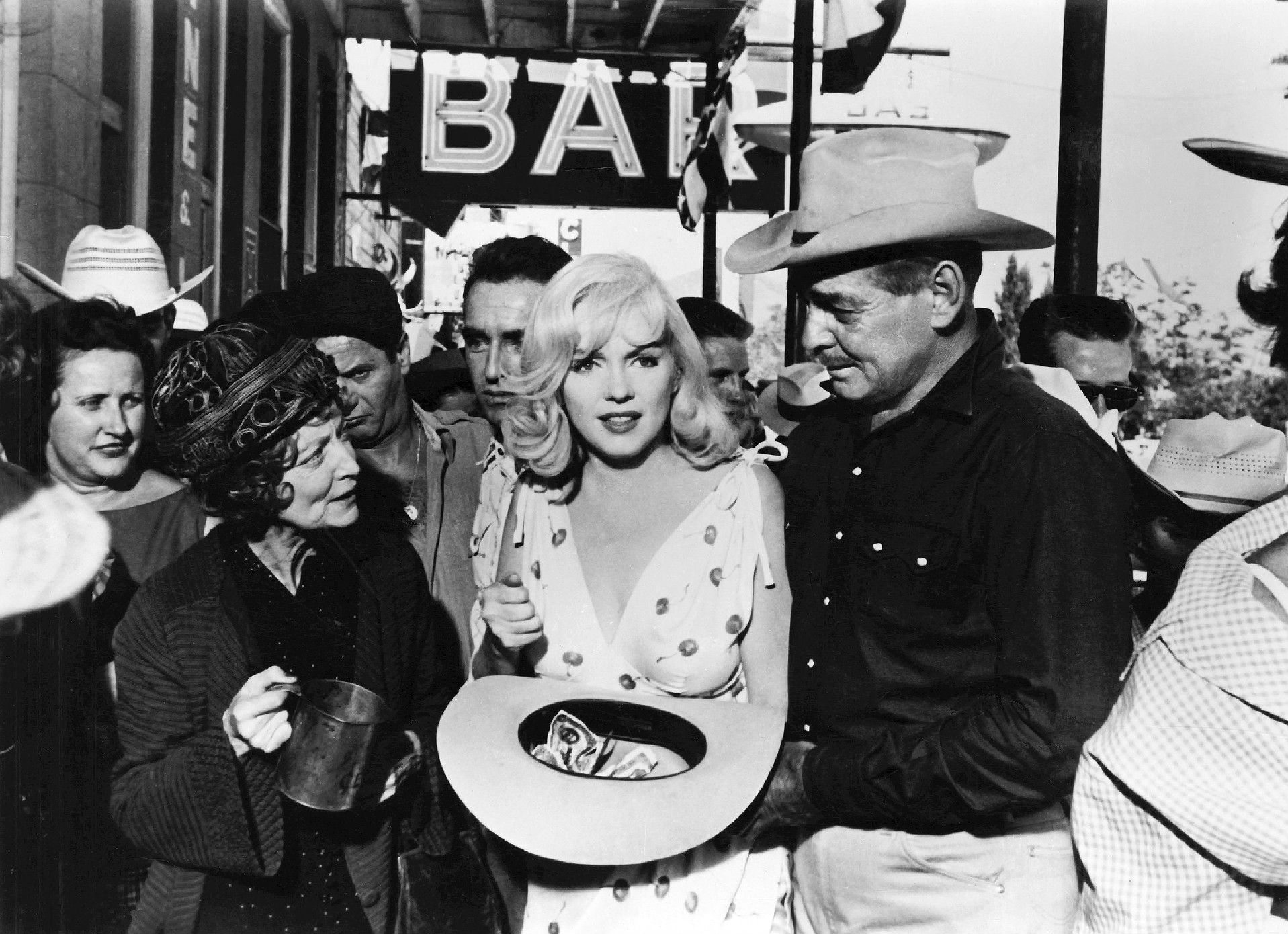 Photo of Marilyn Monroe in the Misfits from the May 1961 issue of TV-Radio Mirror. Note this is a larger, better quality uncropped copy of the photo seen on Radio-TV Mirror page 23. A renewal search was done at using the title Radio-TV Mirror. There were no listings for the publication; there's no evidence of continued copyright on the magazine.